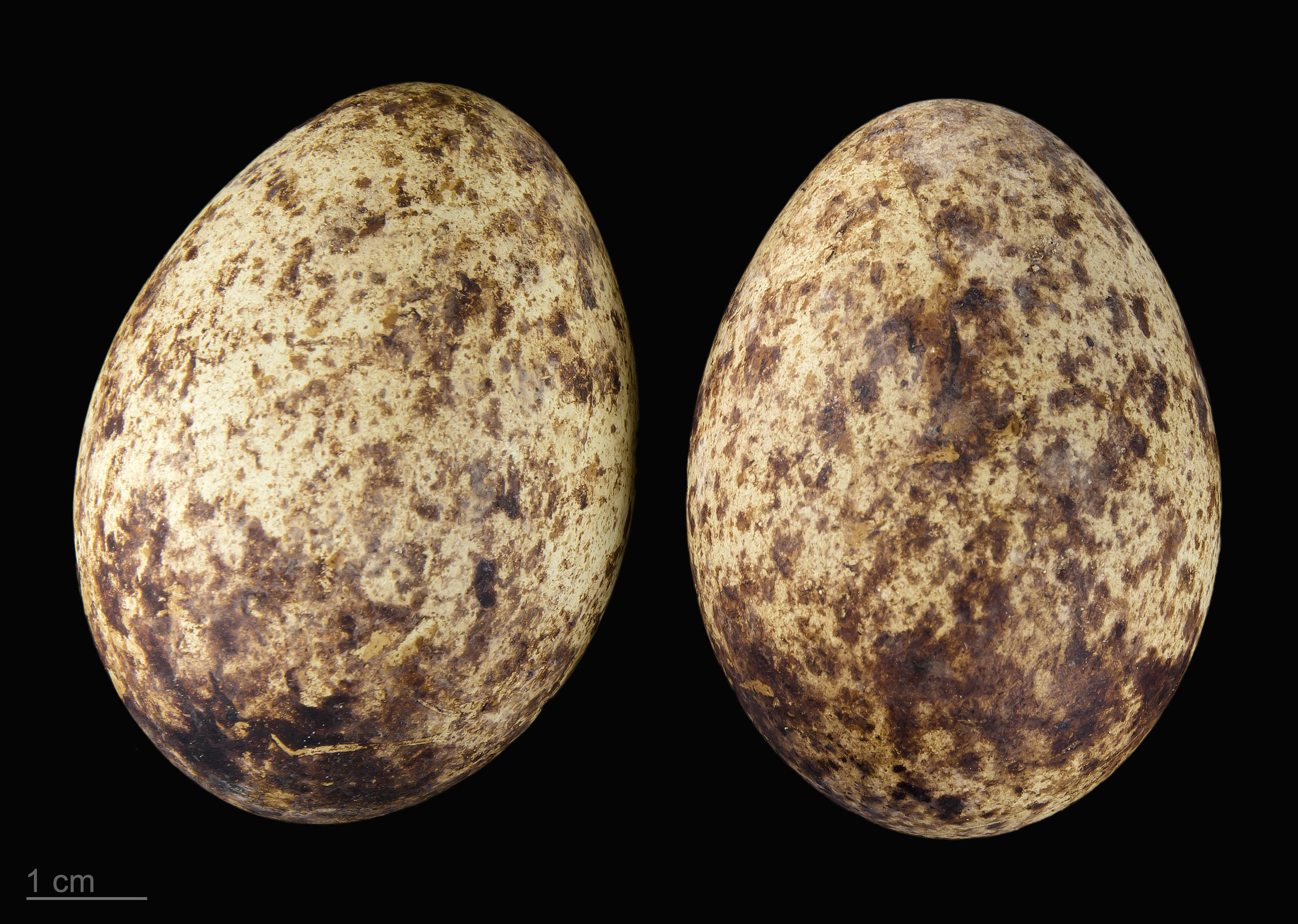 Eggs of Bostrychia hagedash Two specimens of the same spawn ; collection of Jacques Perrin de Brichambaut.